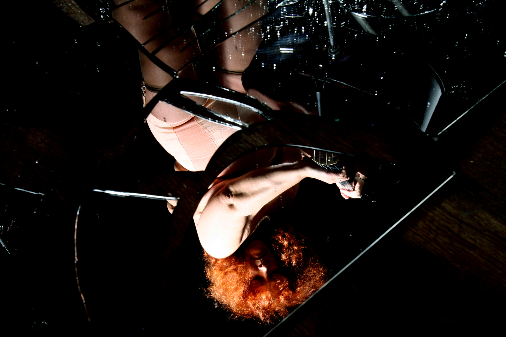 Still from Las Meninas(film) Author - Ihor Podolchak Source - Ihor Podolchak